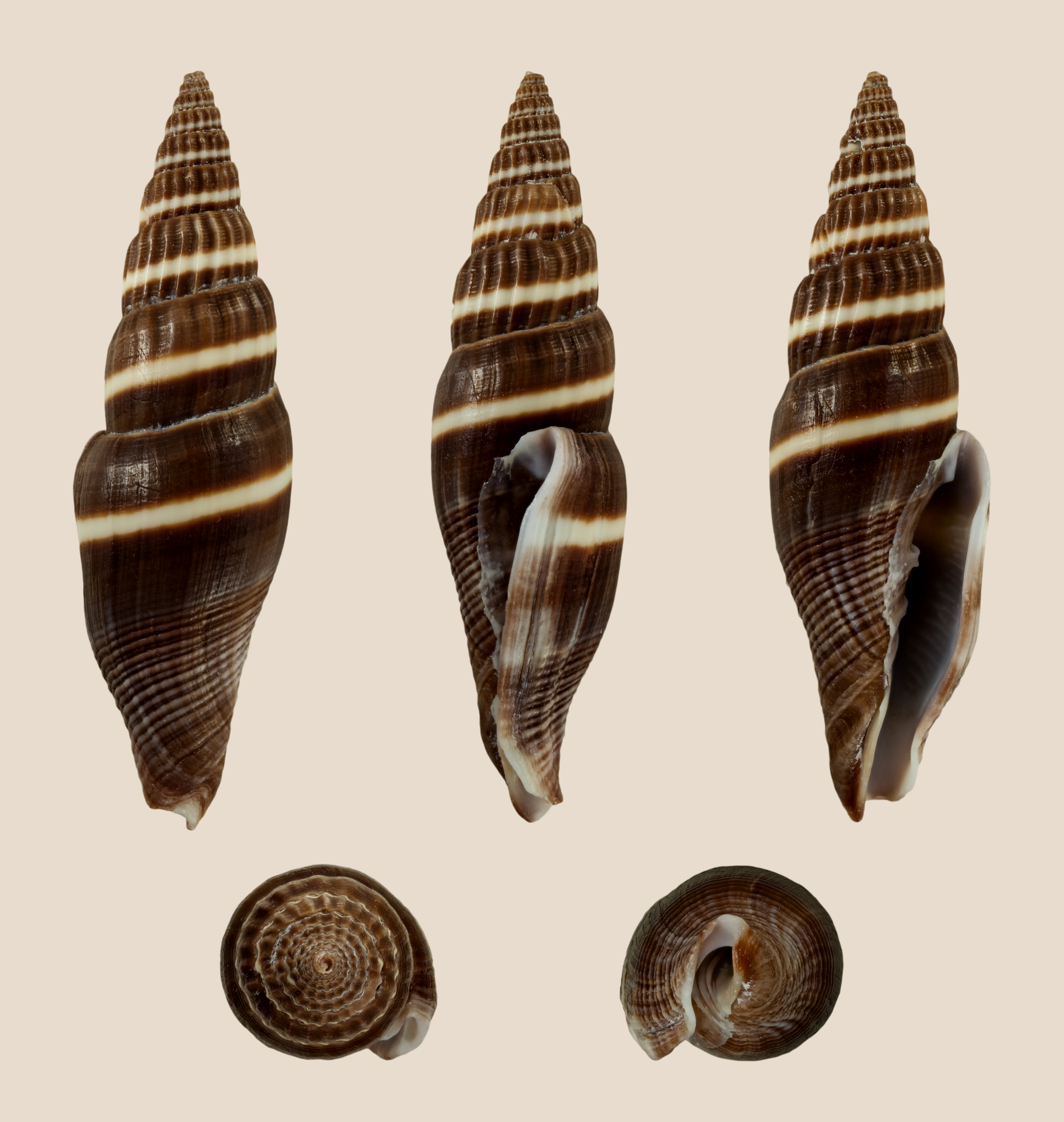 Vexillum formosense (Sowerby, 1889), Formosan Mitre; length 5.7 cm; Originating from the Philippines; Shell of own collection, therefore not geocoded.